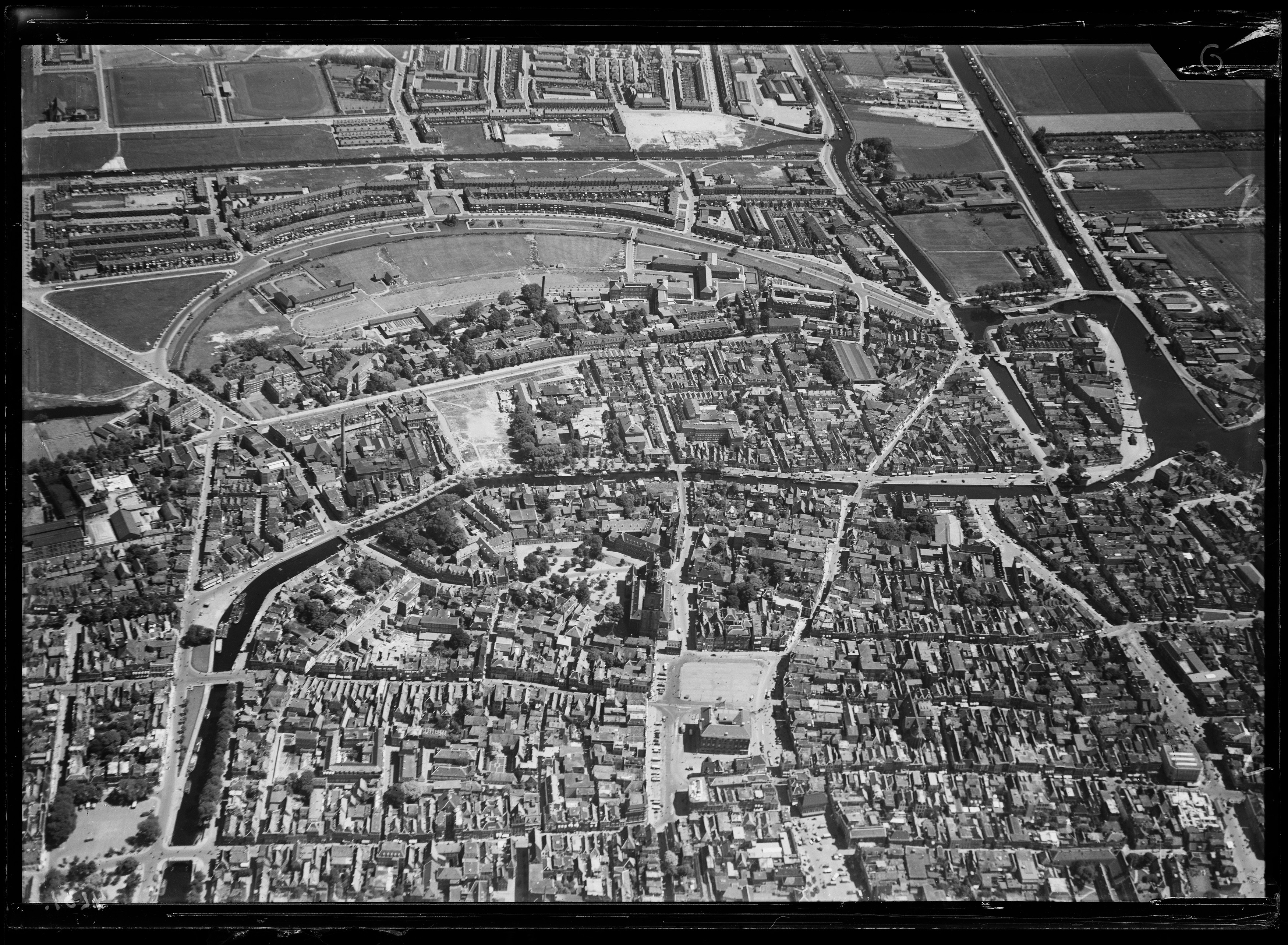 Aerial photograph of Groningen, The Netherlands